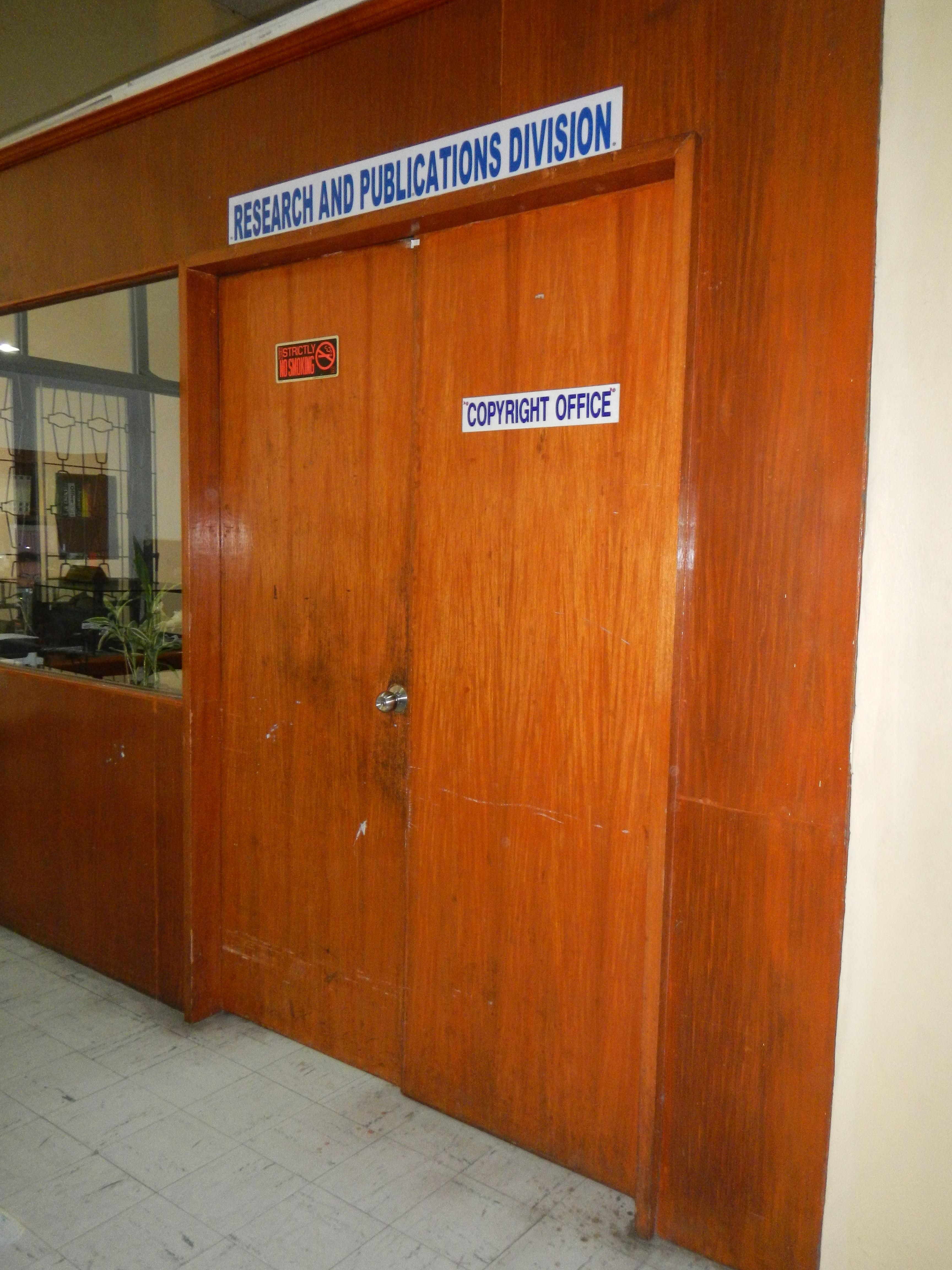 Upload Wizard of - Ang Aklatang Pambansa National Library of the Philippines[1] Rizal Park, T.M. Kalaw Avenue, Ermita, Manila.